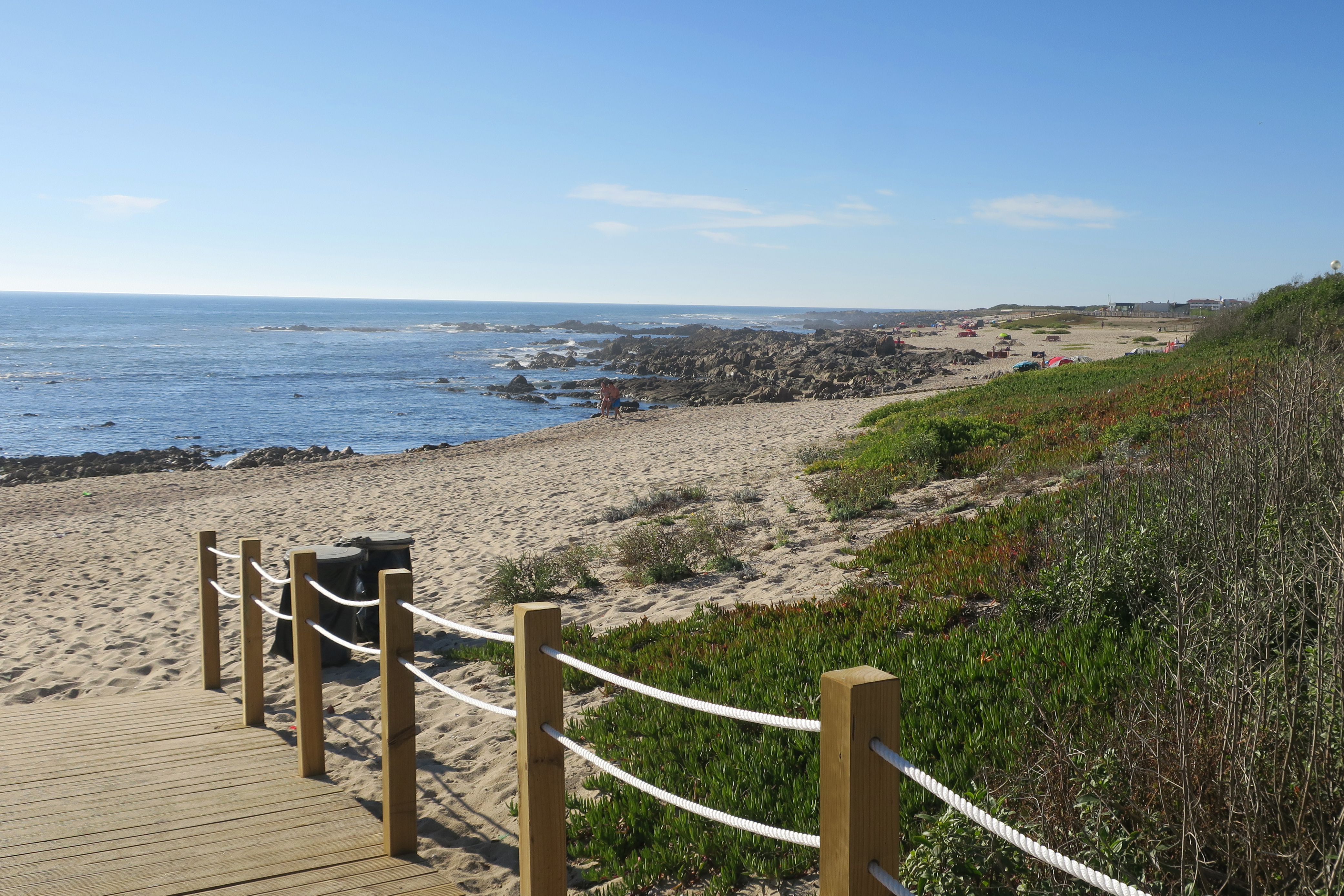 Cape Santo André and sea spray as seen from Jardim da Praia, Povoa de Varzim